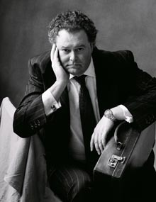 A photograph of the solicitor Mark Stephens by Neil Gavin